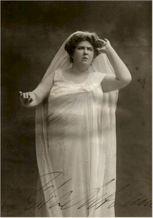 Russian-born French soprano Felia Litvinne (1860-1936)